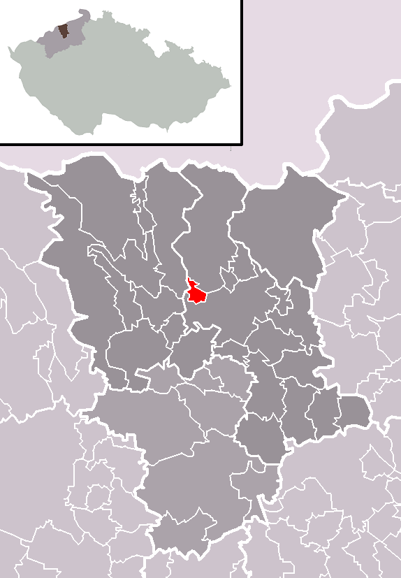 Location of Újezdeček municipality within Teplice District and administrative area of Teplice as a Municipality with Extended Competence.